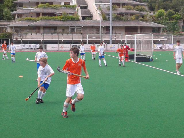 Hockey in Donostia